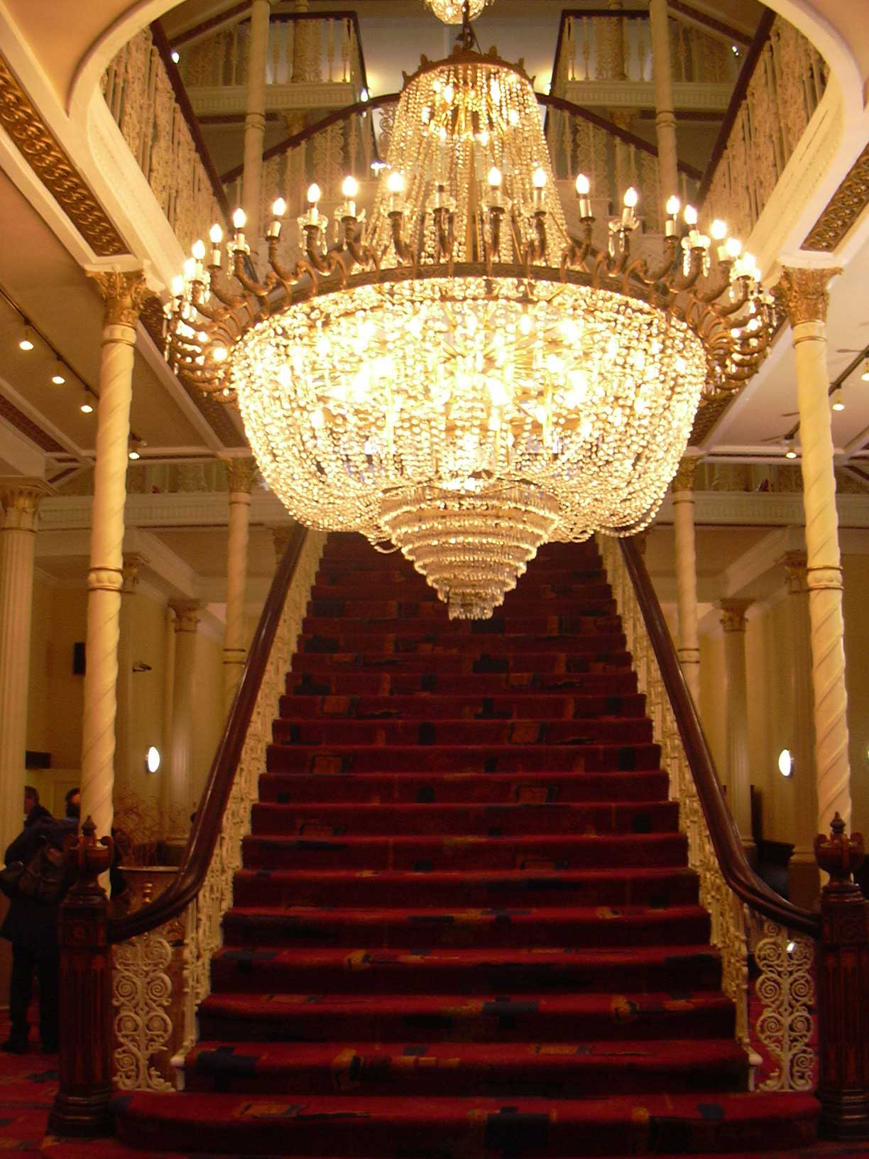 The entrance lobby of Watts Warehouse, Manchester